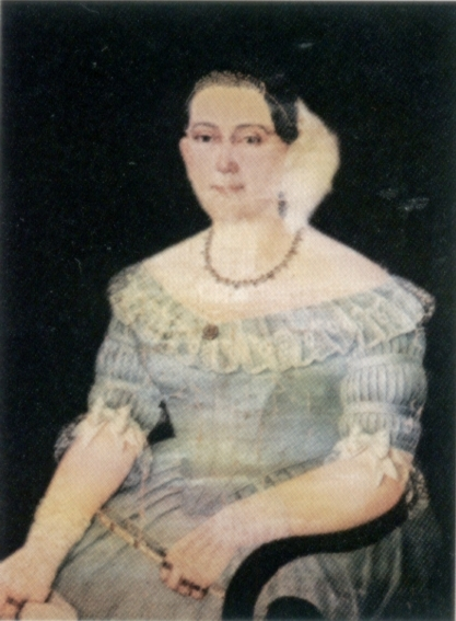 Maria Isabel de Assunção Vernek (or Werneck), née Maria Isabel de Assunção Gomes Ribeiro de Avelar, second baroness of Pati do Alferes, dressed in a ball gown.